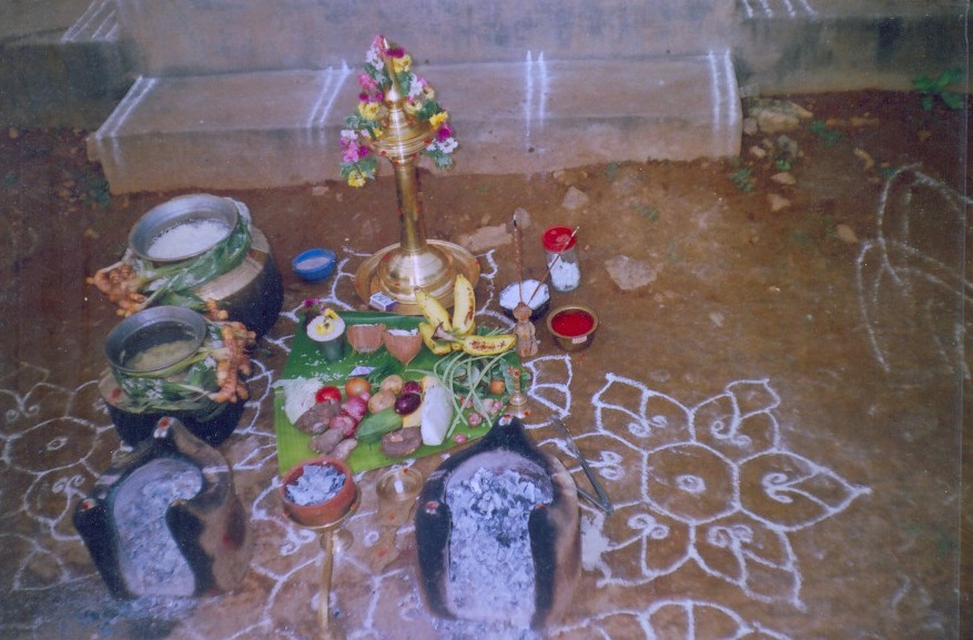 Newly cooked rice and savouries prepped for celebrating pongal.